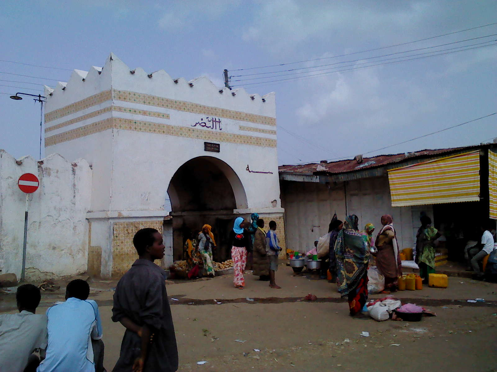 Harar, Nasr gate